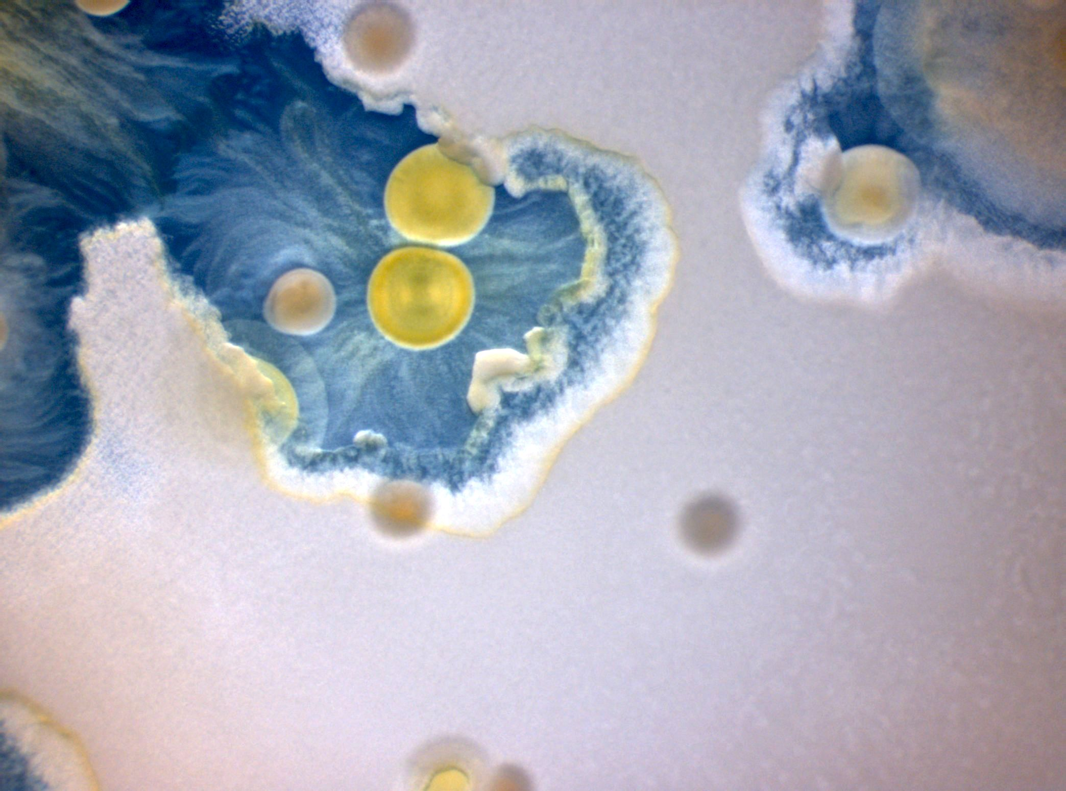 Agar plate with contaminating white bacterial lawn. The later grown yellowish Myxococcus xanthus colonies send off swarms of cells that eat through that lawn. (Original size of the section: ca. 1cm).